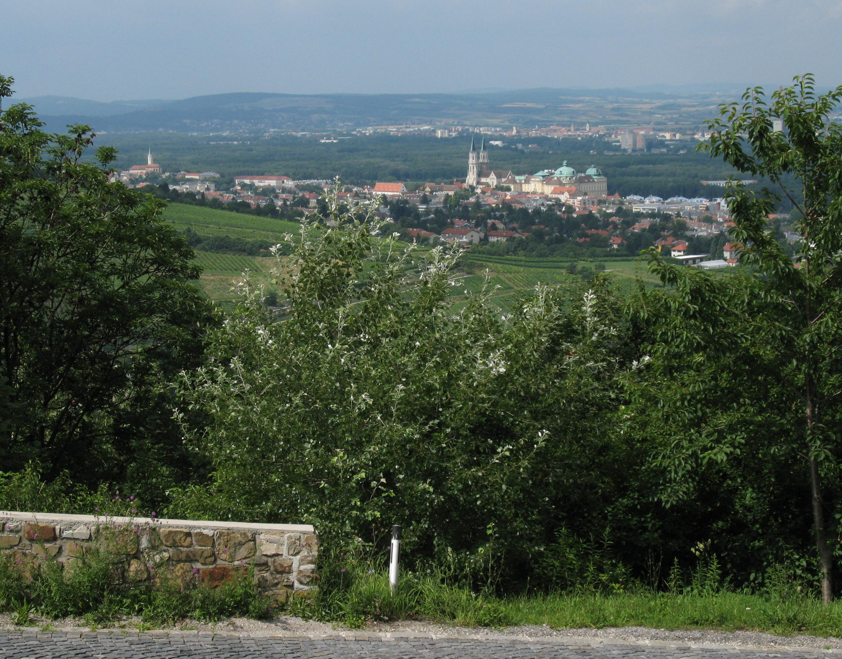 Klosterneuburg, Austria